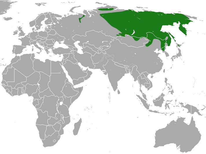 Northern Pika (Ochotona hyperborea) range